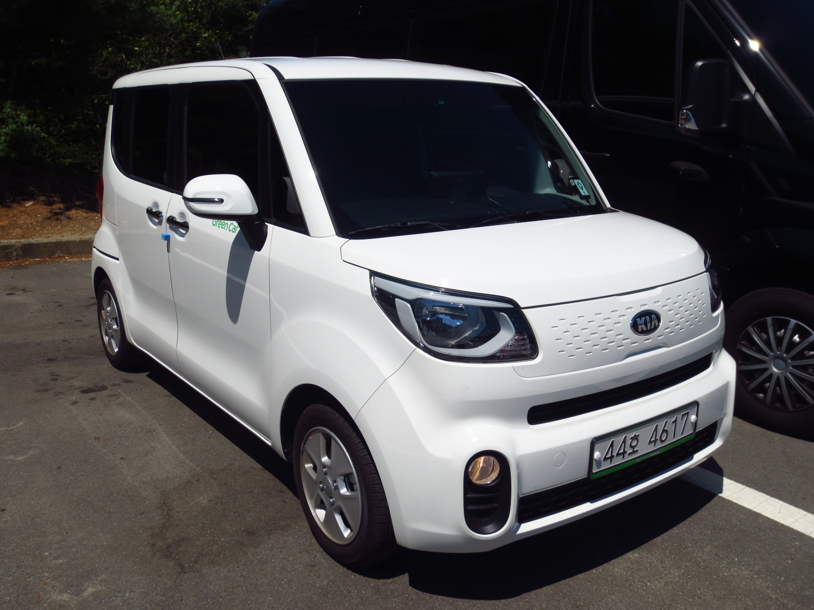 KIA THE NEW RAY